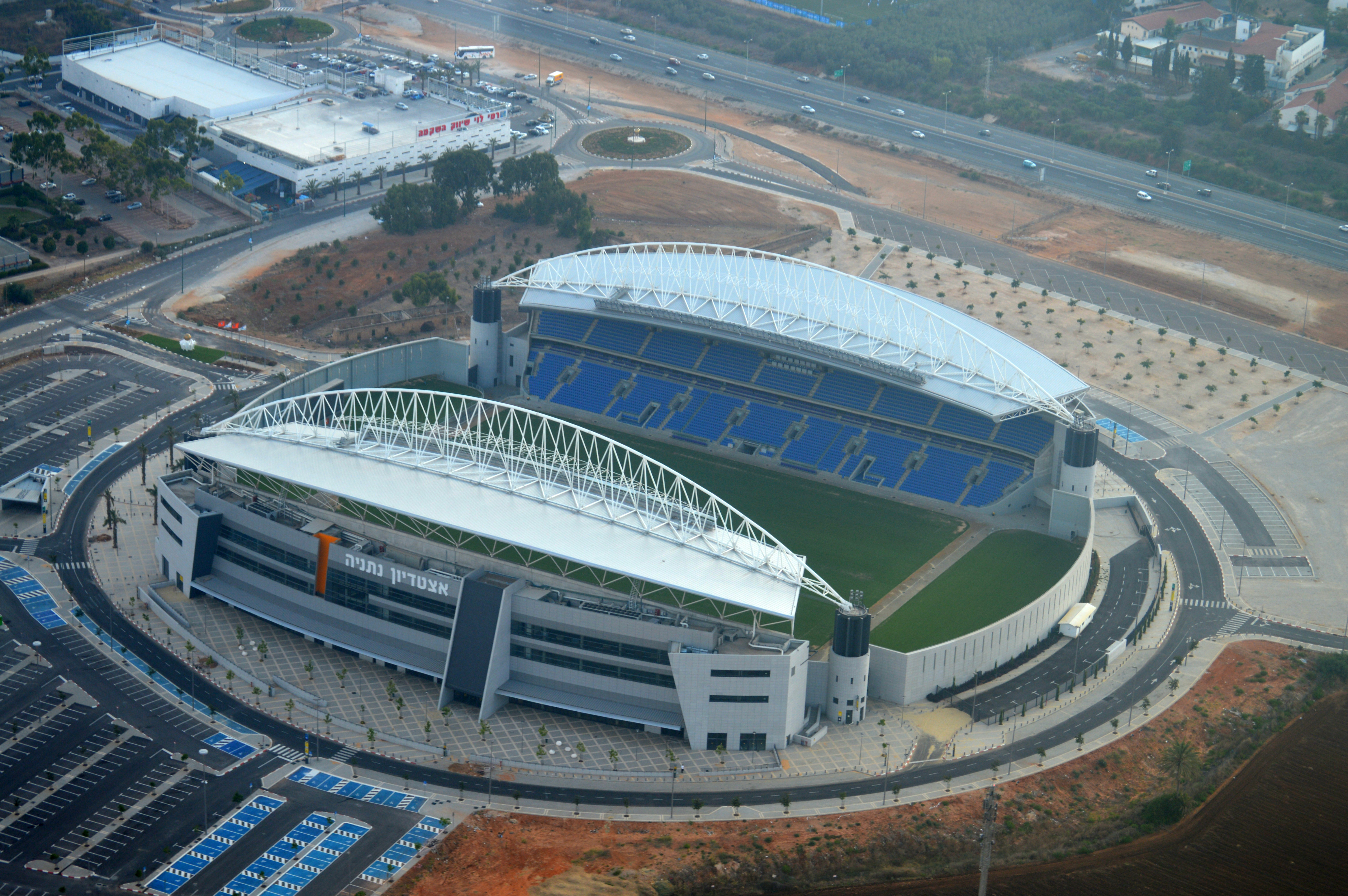 Aerial View of Sharon plain, Israel